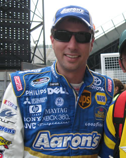 David Reutimann posing with a fan at the 2008 NASCAR Nationwide Series event at Mexico City